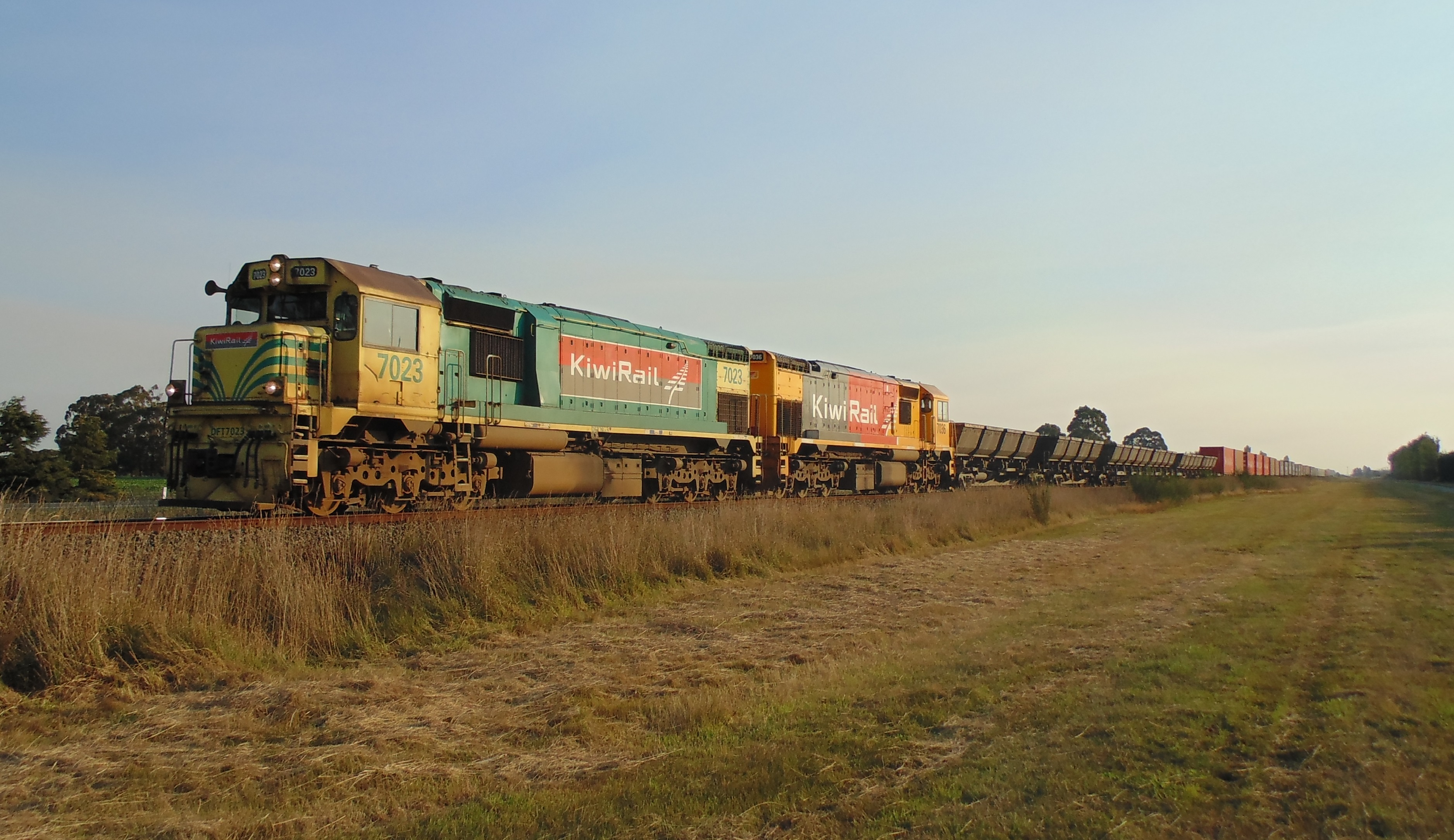 TrainboyMBH